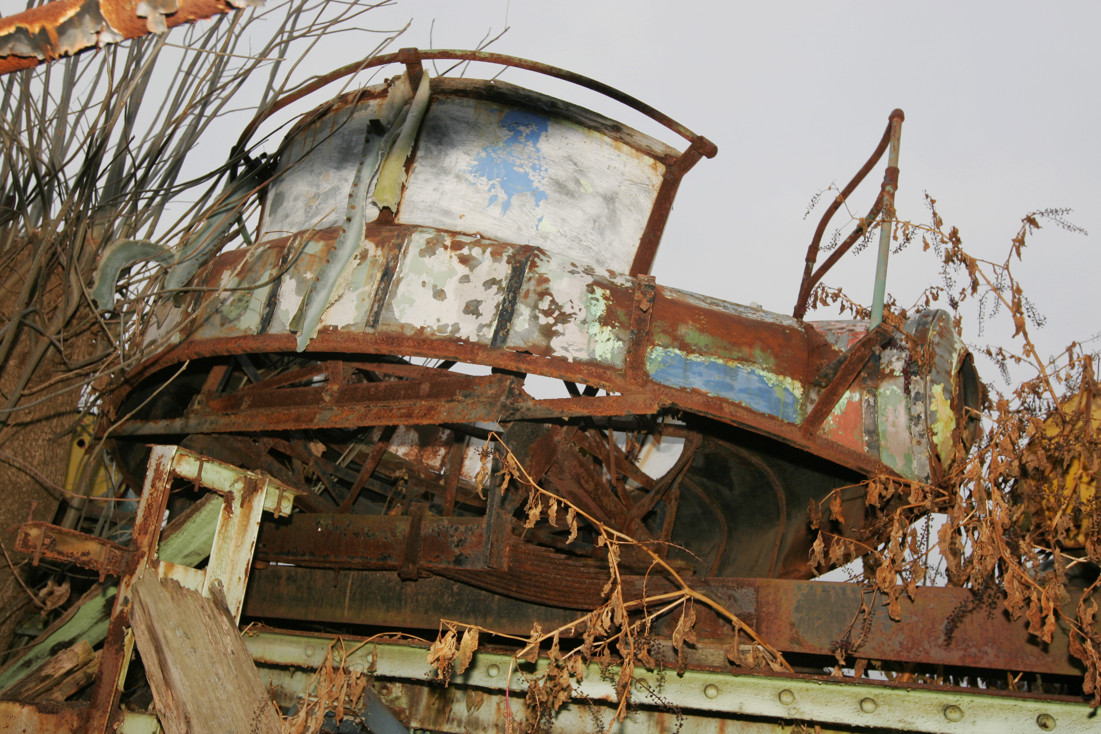 Chippewa Lake Park's Tumble Bug (nicknamed "The 'Bug'") as of late 2010